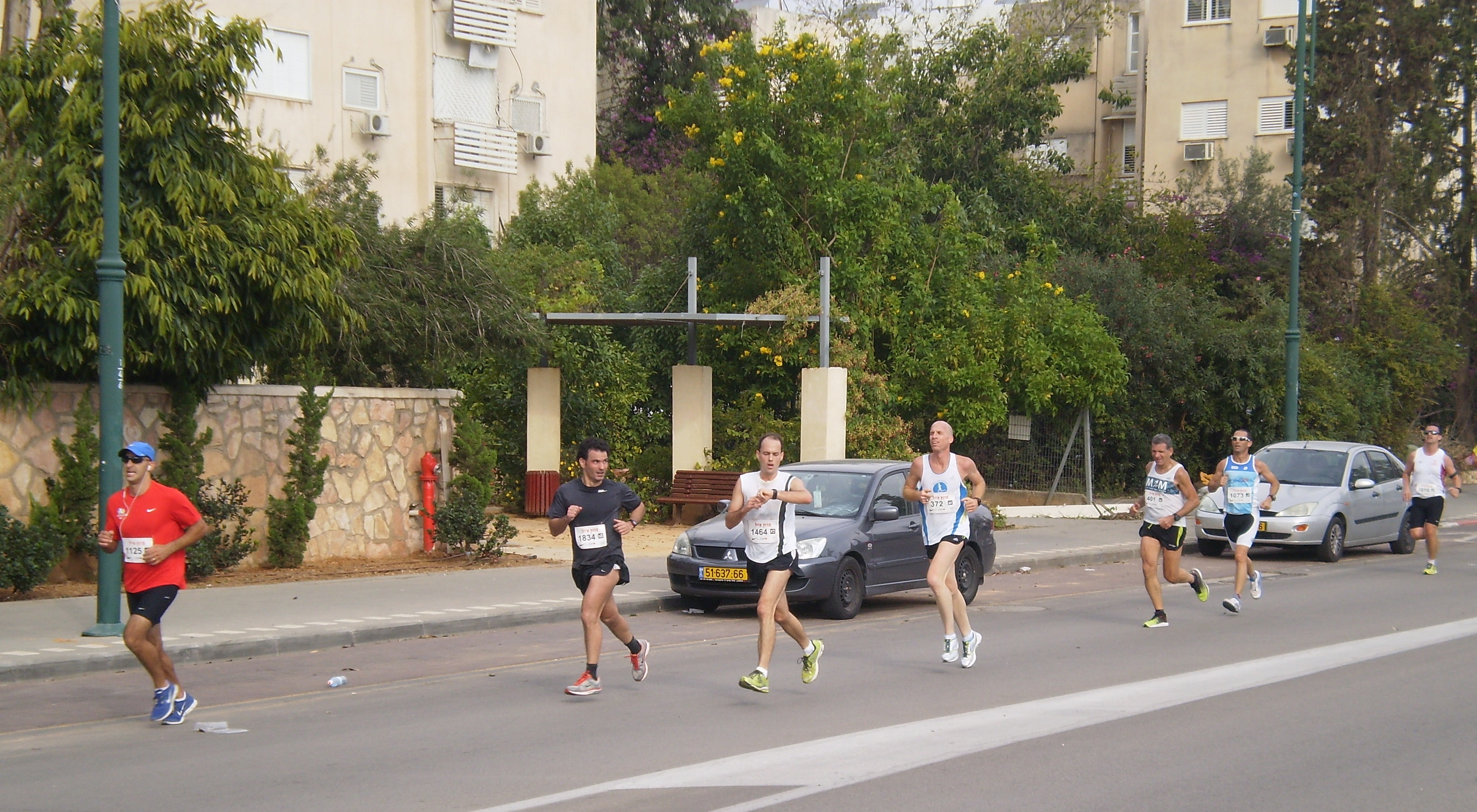 11th Eyal running, Ramat Hasharon